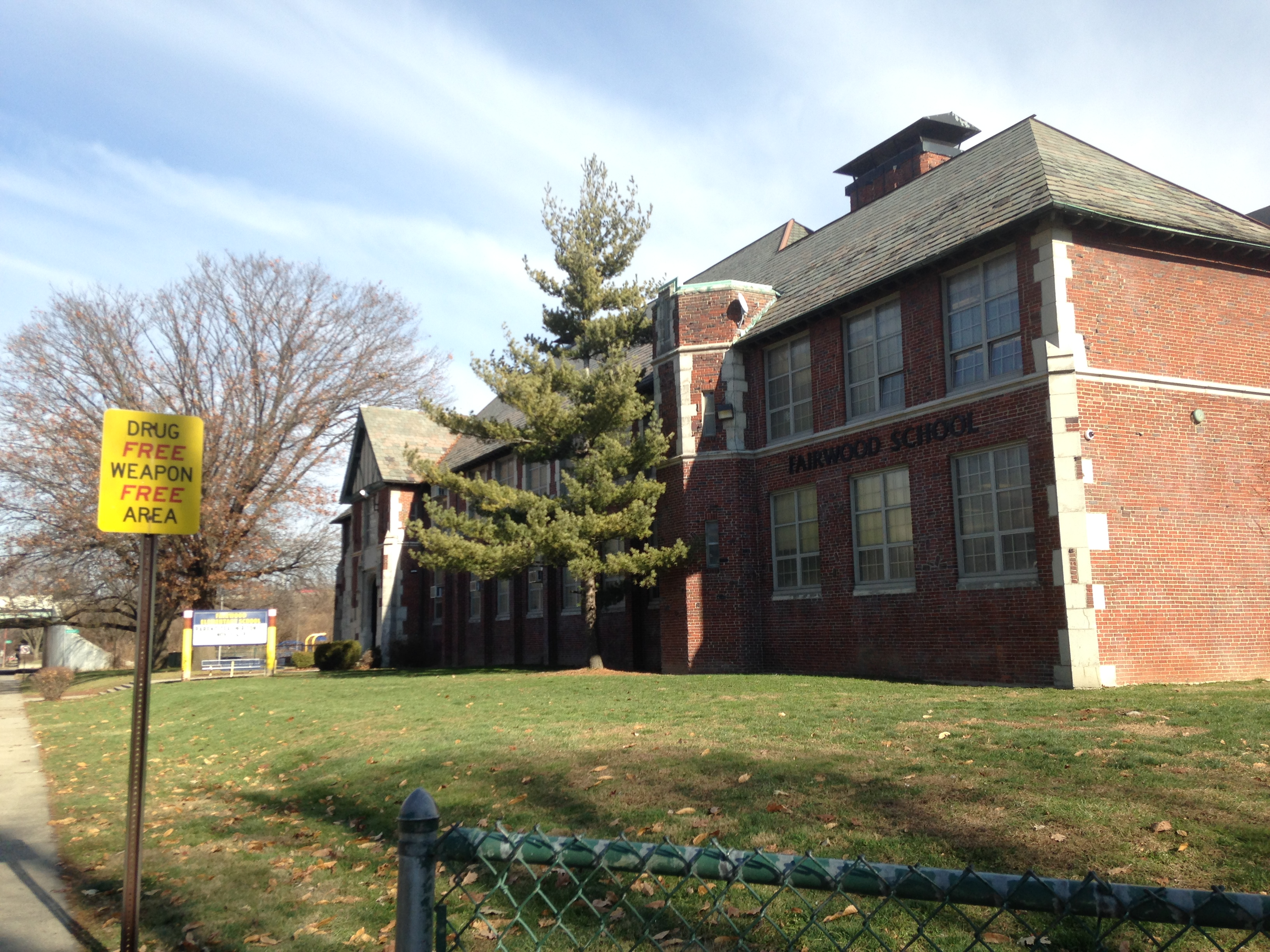 Fairwood Alternative Elementary School in Driving Park